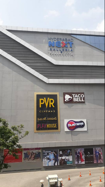 Galleriapunjagutta